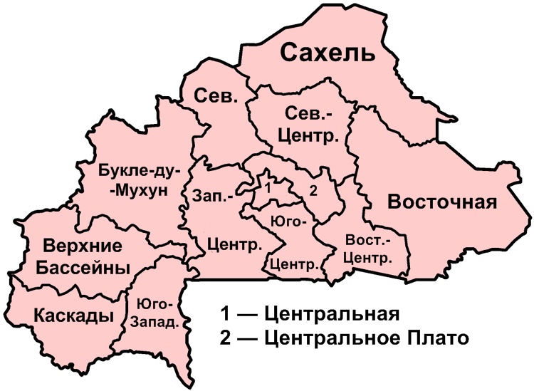 Map of the Administrative Regions of Burkina Faso